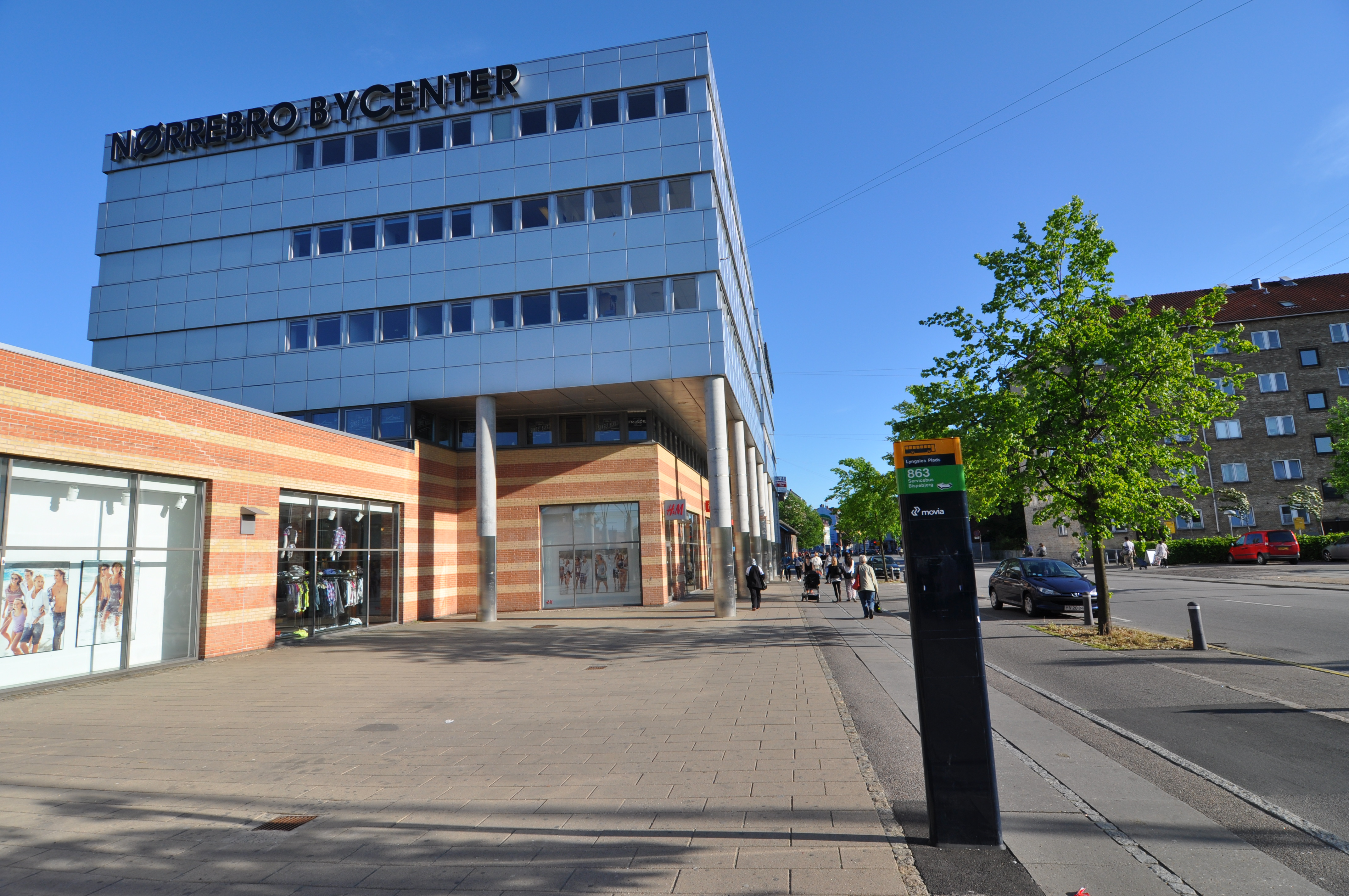 Copenhagen Fertility Center is situated on the top of Nørrebro Center